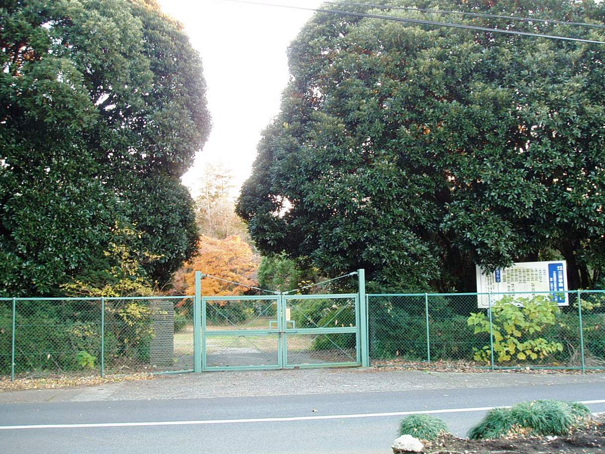 Former Sodegaura (Naraha) Campus of Saniku Gakuin College located in Sodegaura, Chiba, Japan.